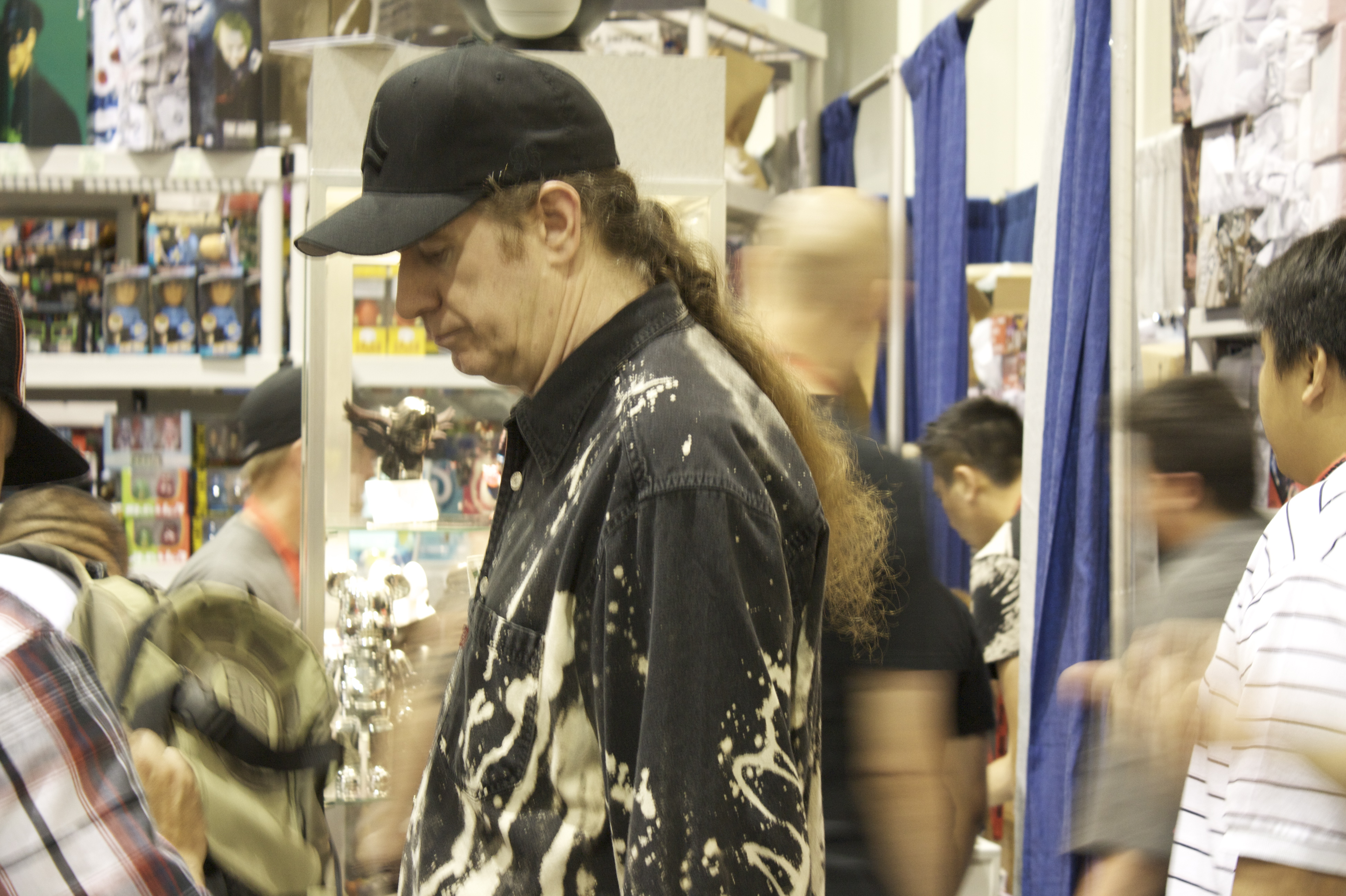 Pushead at San Diego Comic-Con 2009